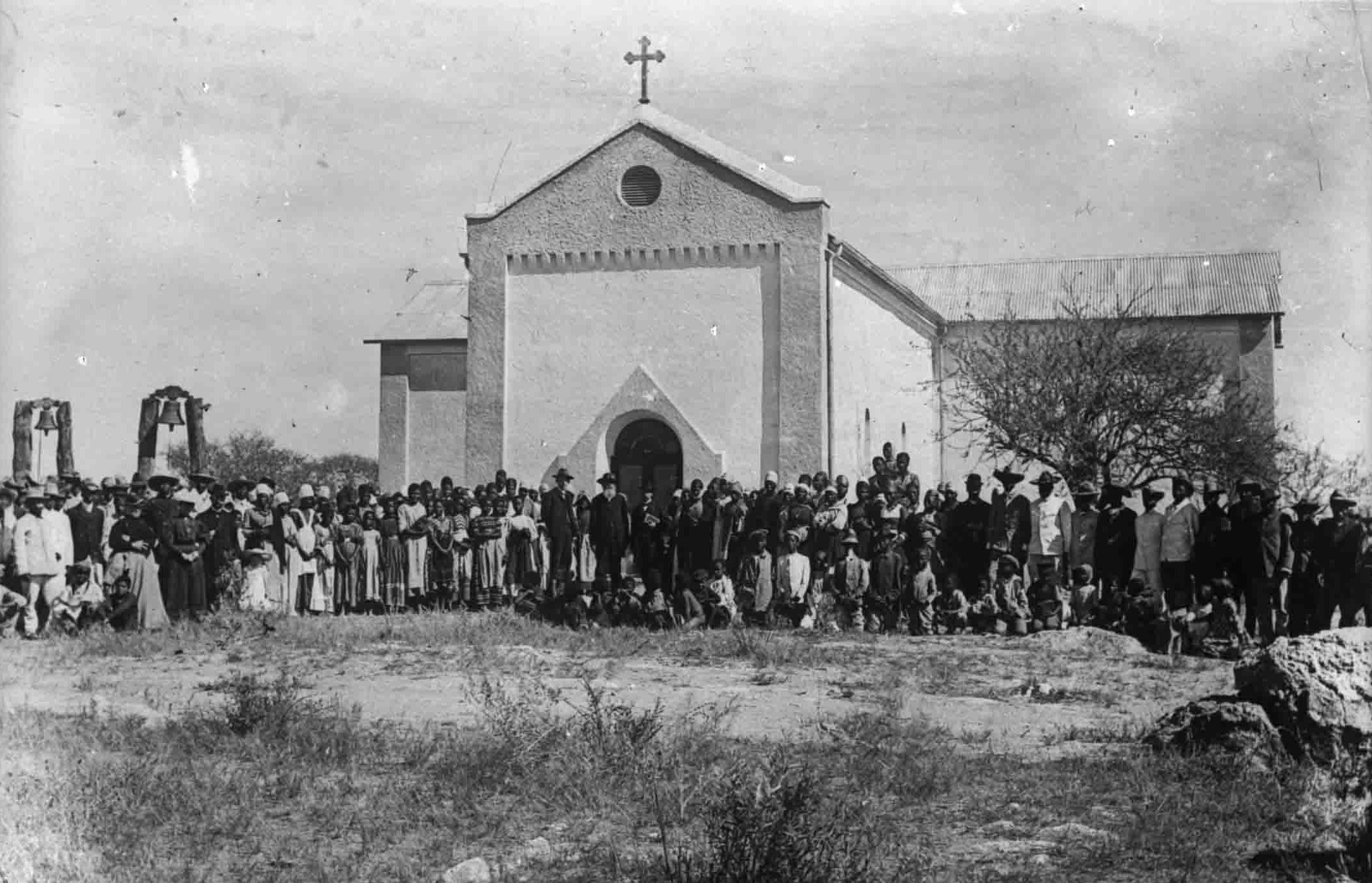 Lutheran Church in Okahandja, Namibia; build in 1870 (Rhenish Mission Church)